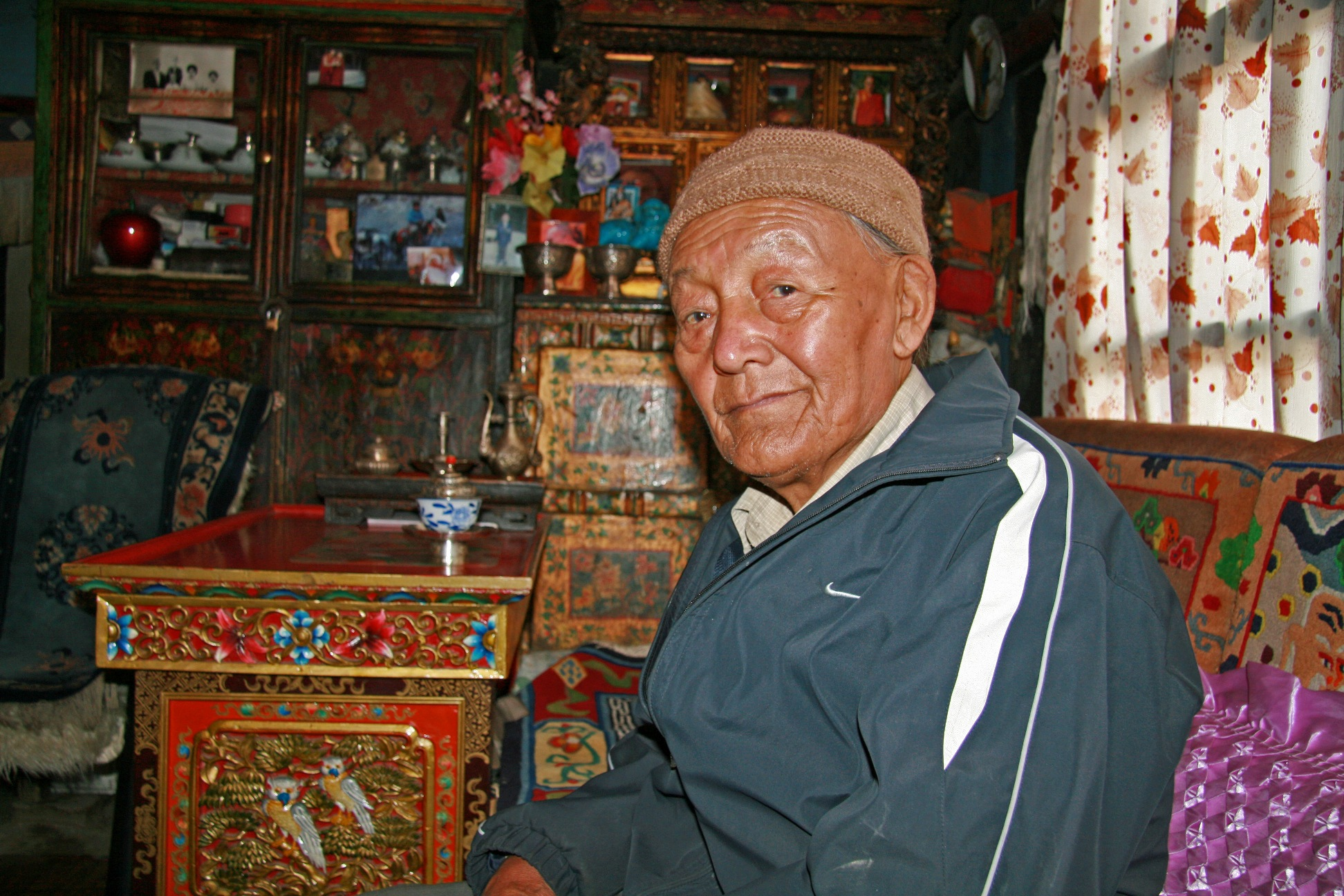 Jigme Palbar Bista, King of Mustang (Nepal) in August 2007; Held title of "Bista" and Not to be confused with Rajput and Chhetri surname Bista/Bisht.